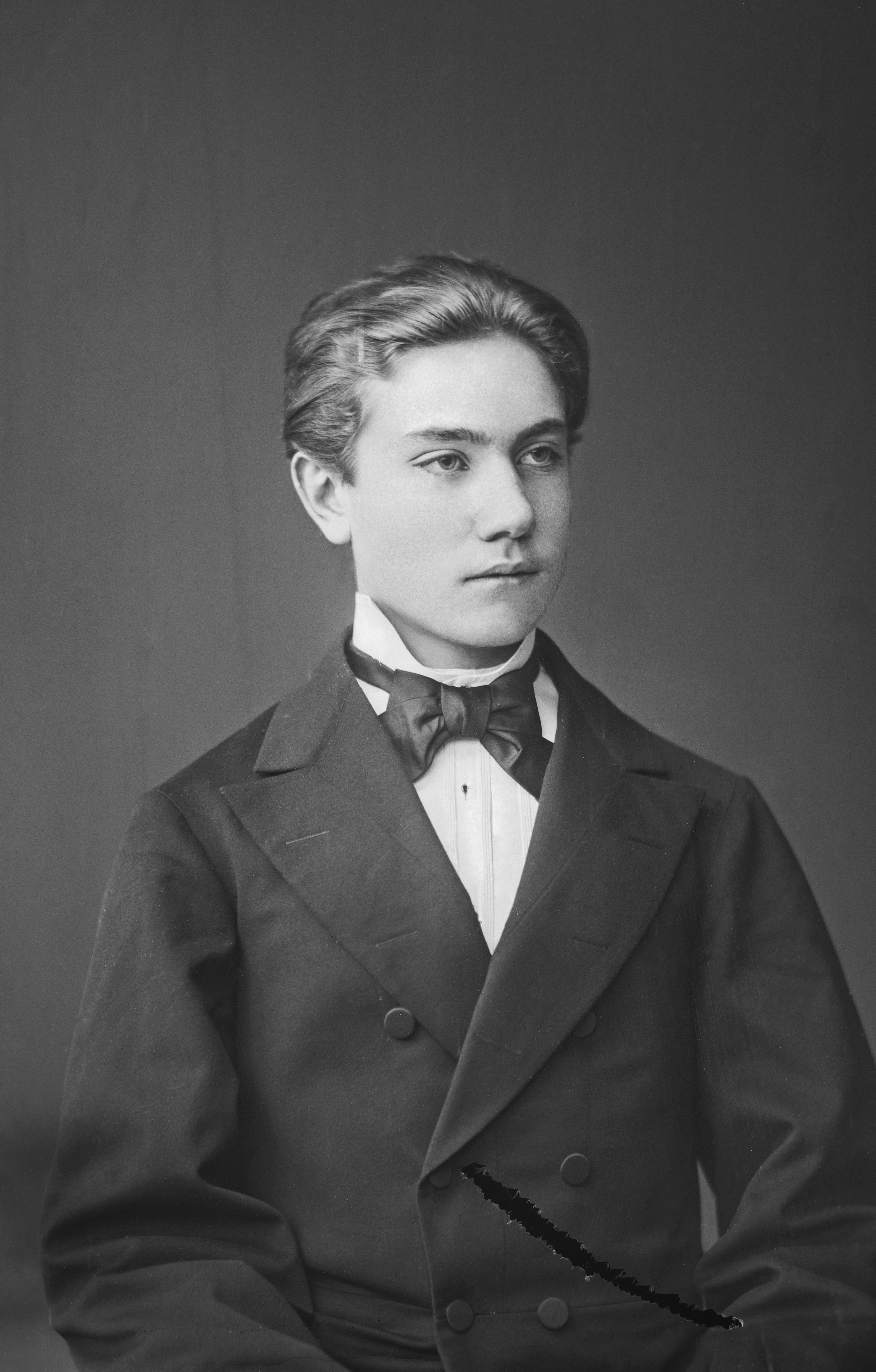 Opera singer Alarik Uggla in 1877